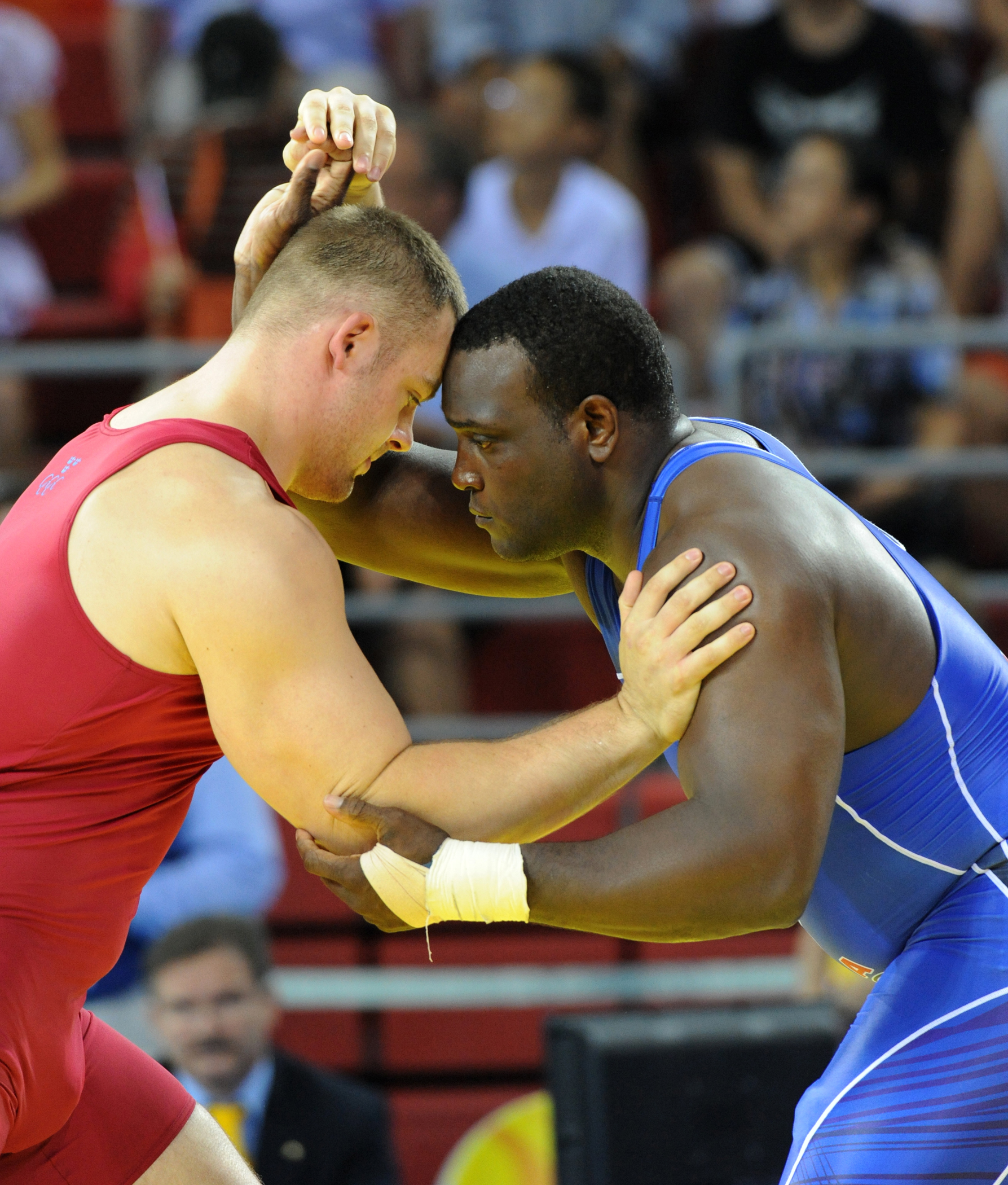 ByersVowsToWrestleTowardLondon.jpg: U.S. Army World Class Athlete Program Staff Sgt. Dremiel Byers (right) vows to wrestle for a berth in the 2012 London Games after losing to Sweden's Jalmar Sjoberg (left) in the Olympic Greco-Roman 120-kilogram quarterfinals Aug. 14 at the China Agricultural University Gymnasium in Beijing. "This is fuel for something bigger, and the only thing bigger is the next Olympics," Byers said.